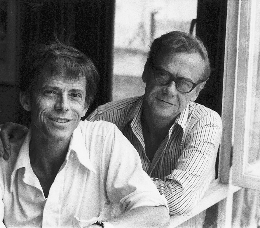 James Merrill (1926-1995) and David Noyes Jackson in Athens, 14 October 1973